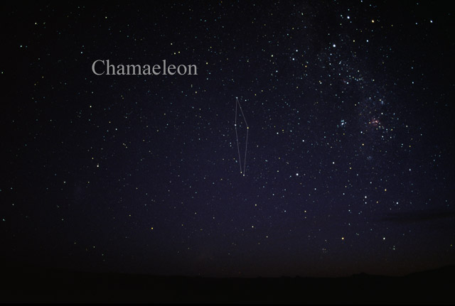 Photo of the constellation Chamaeleon